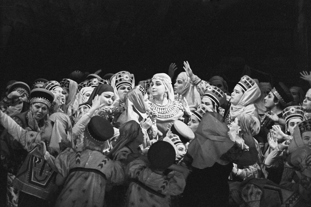 “The Bolshoi Theater of the USSR”. "The legend of the city of Kitezh", the opera by Nikolai Rimsky-Korsakov on the stage of the State Academic Bolshoi Theater of the USSR. Production director Iosif Tumanov, conductor Rihards Glazups, merited artist of the Latvian Soviet Socialist Republic, decoration by Vadim Ryndin, People's Artist of the USSR.